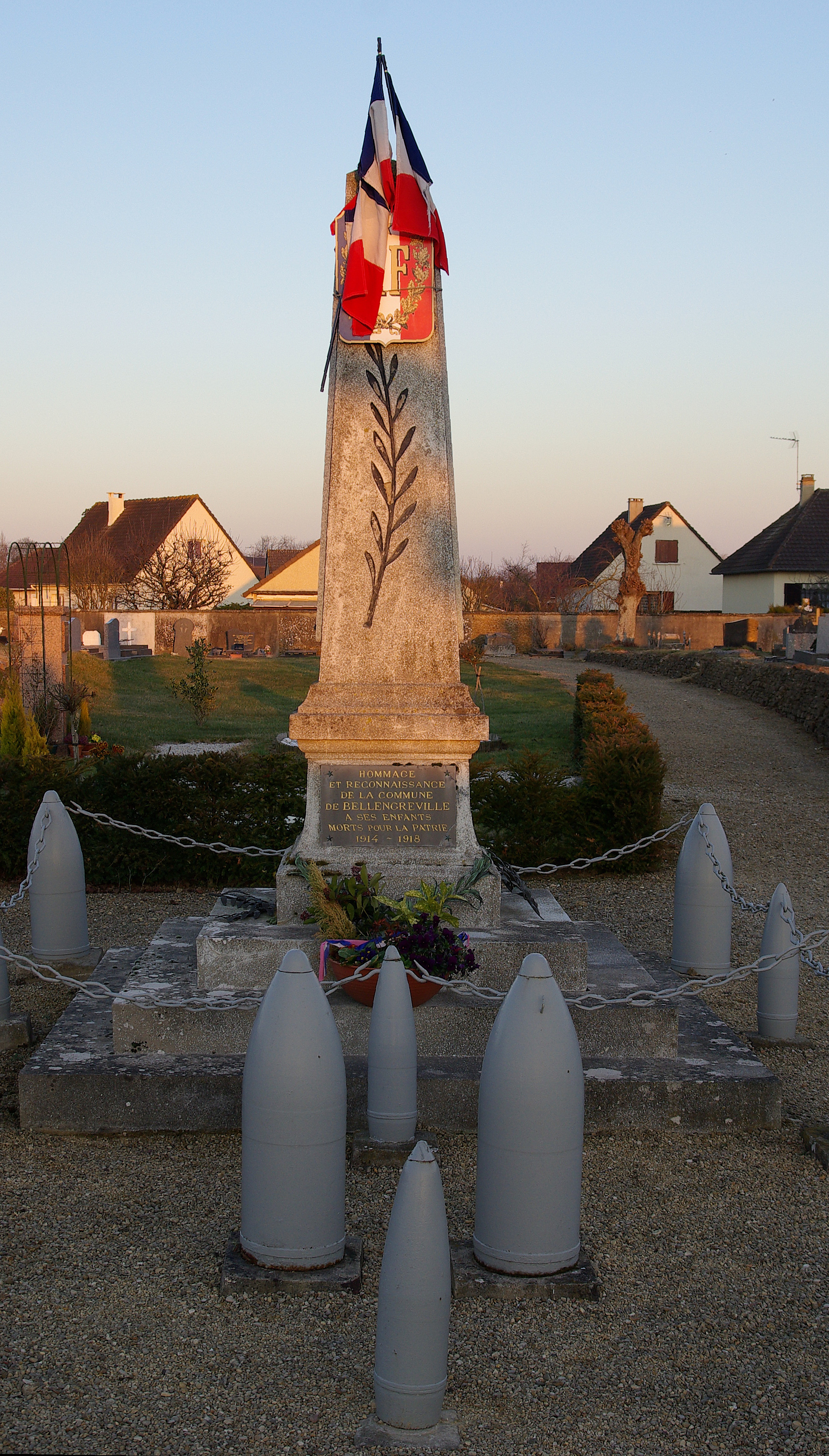 The war mémorial